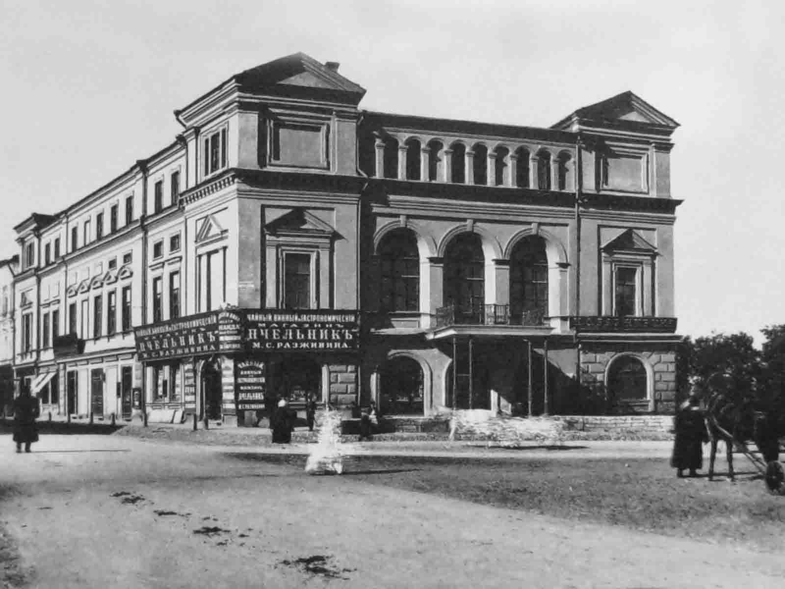 House of famous merchant Pyotr Burgov at Annunciation Square in Nyzhny Novgorod